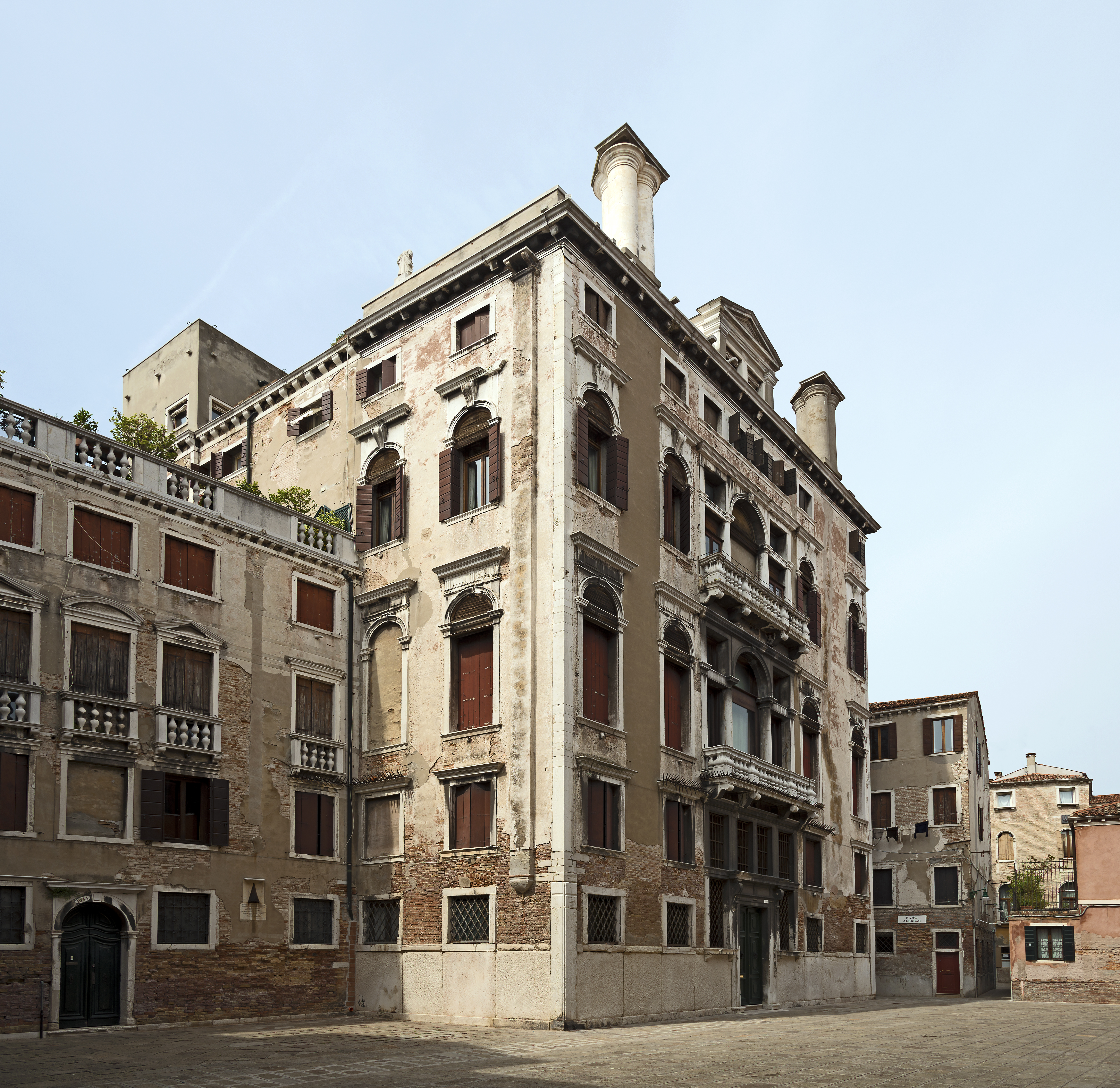 Palace Albrizzi on Campiello Albrizzi in sestiere of San Polo Venice.